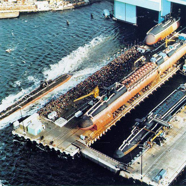 Picture is of 8 Dec 1979, it shows the launch of USS Phoneix (SSN-702). Far right ist Ohio (SSBN-726), left of her Michigan (SSBN-727). only partially visible USS Florida (SSBN-728).